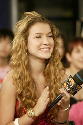 The cast of the 2007 film Bratz, at MuchMusic for a MuchOnDemand episode.